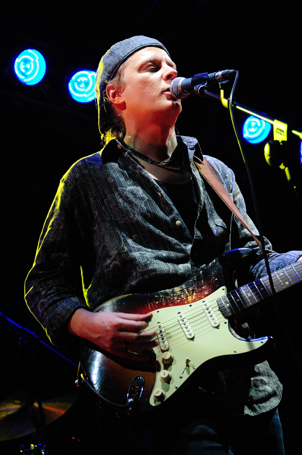 Matt Schofield in 2009.